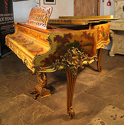 Pleyel Piano with Stunning, Louis XV, Vernis Martin Case Entire Cabinet is Covered with Vernis Martin and Oil Paintings of Pastoral Scenes by Merlin. Ornately Carved Giltwood and Scroll Foot Legs and Lyre